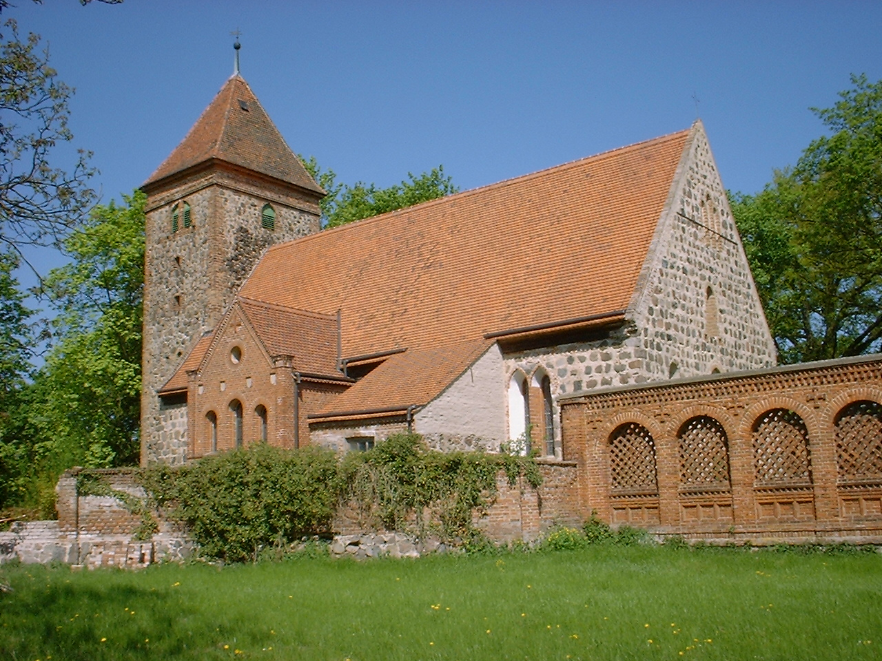 Church in Neuruppin-Radensleben in Brandenburg, Germany